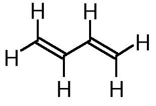 The structure of 1,3-Butadiene. Made with ChemSketch and the GIMP.